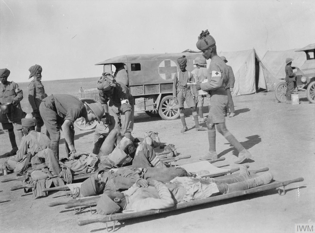 Indian medical orderlies attending to wounded soldiers on stretchers outside a dressing station, Mesopotamia, during the First World War.